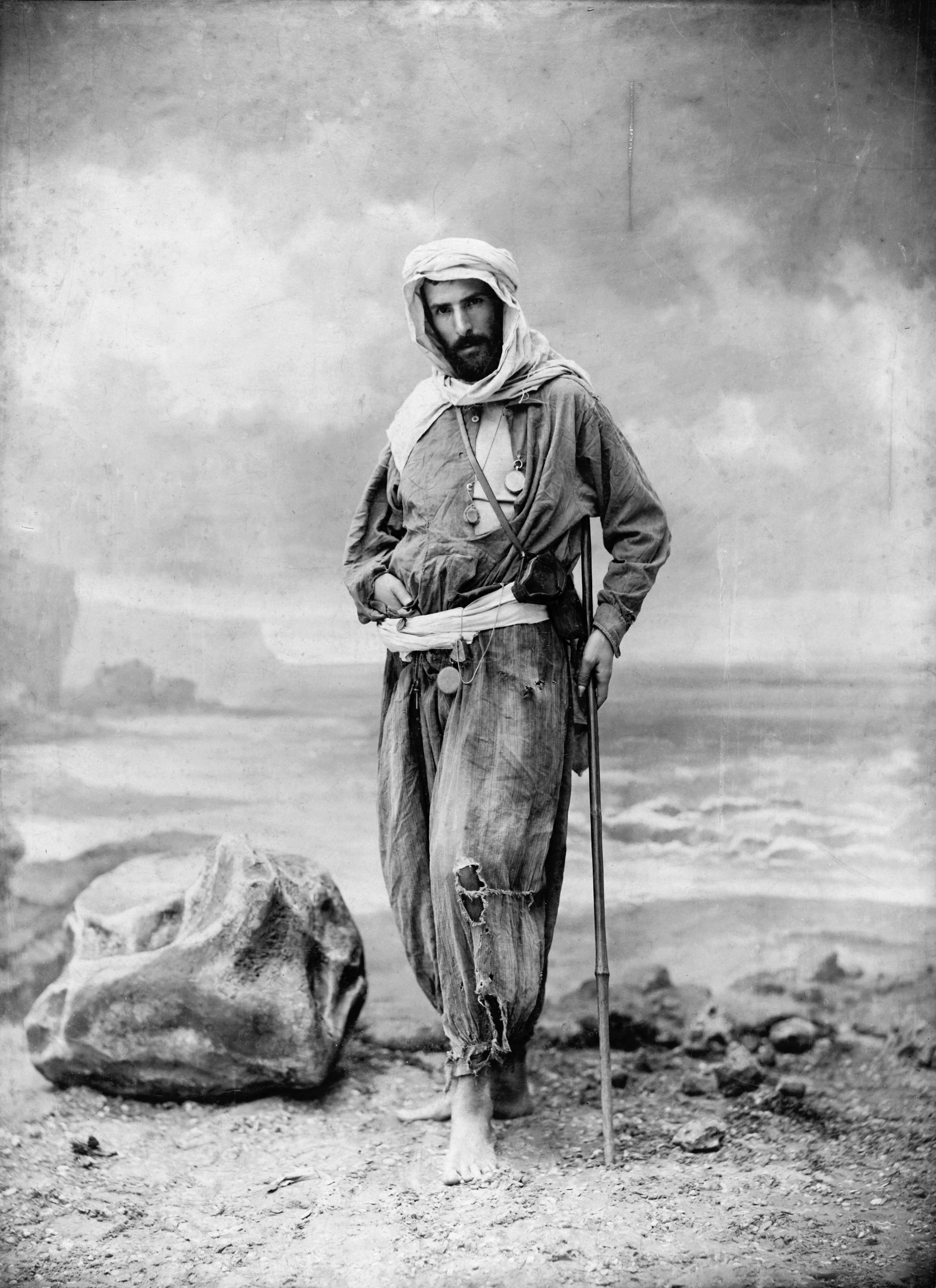 Pietro Savorgnan di Brazzà, explorer of Congo. (Rome 1852 - Dakar 1905).